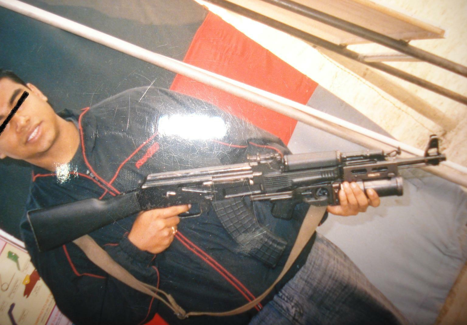 An Indian AK-7, the local copy of the AK-47.